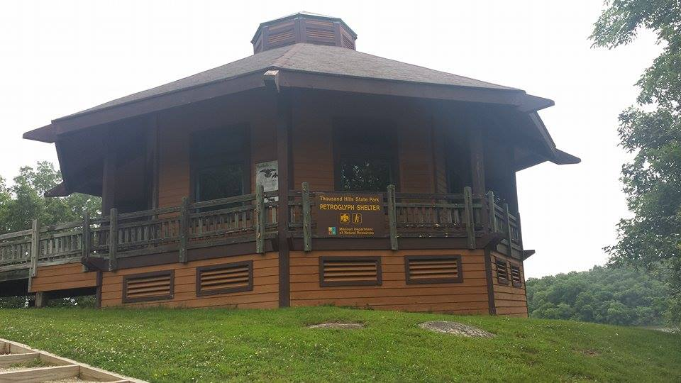 Weather shelter protecting Native American petoglyphs at Thousand Hills State Park near Kirksville, Missouri.